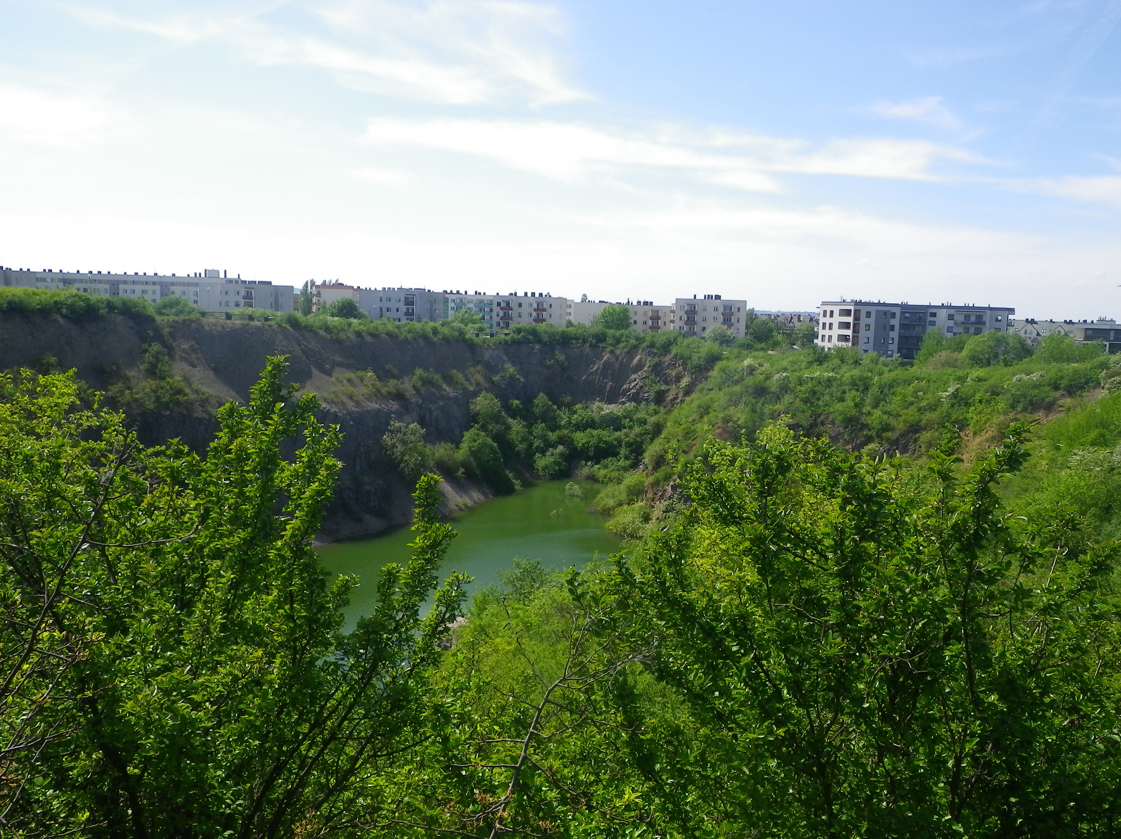 Ślichowice nature reserve in Kielce in a former quarry, showing folding of Variscan orogeny period.